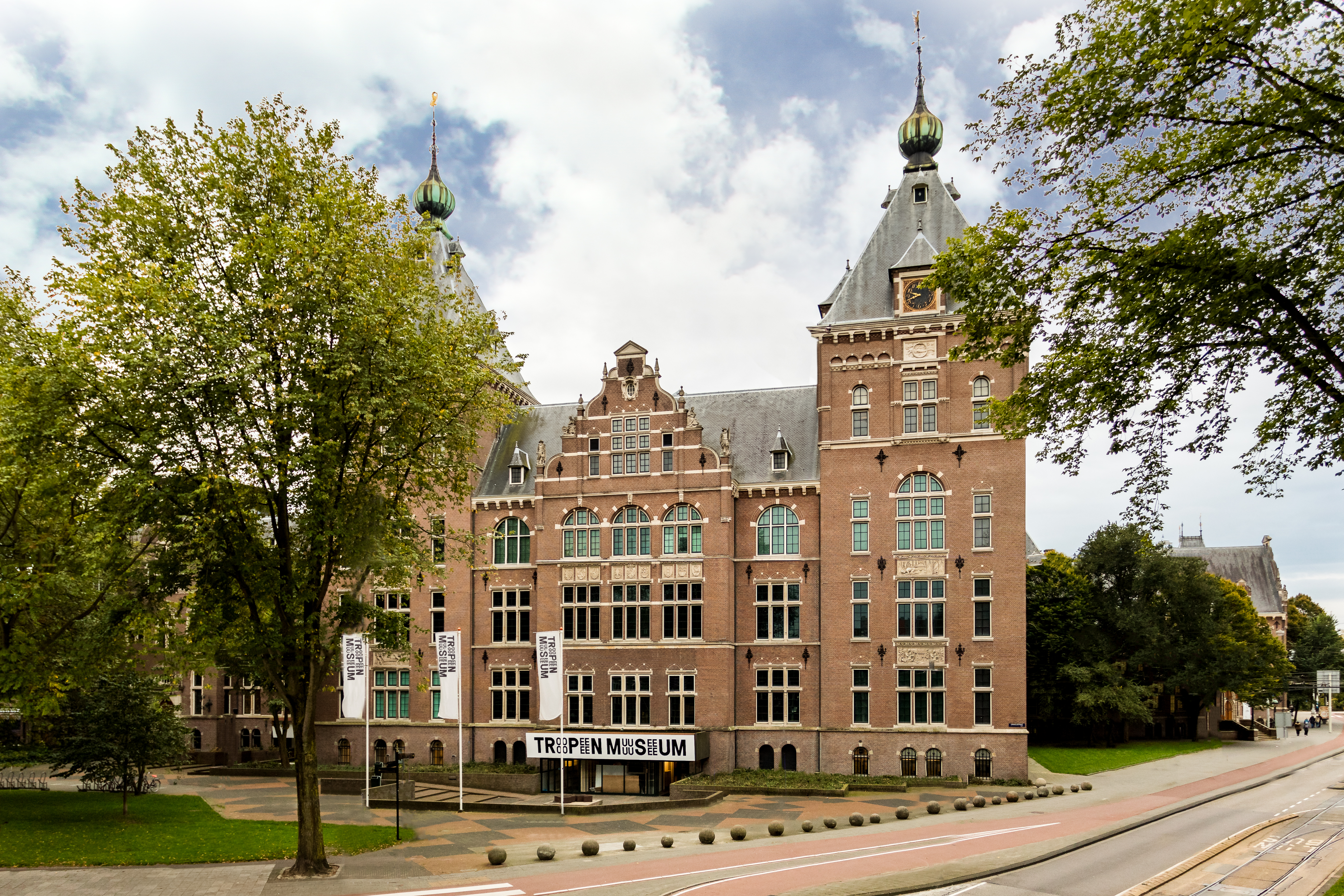 Exterior photo of the Tropenmuseum